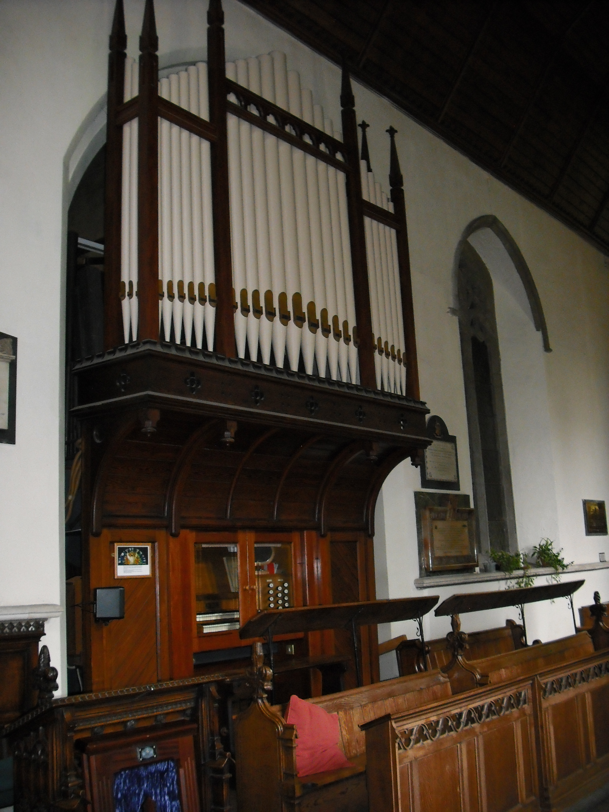 St Peter and St Mary's church, Stowmarket, Suffolk - organ